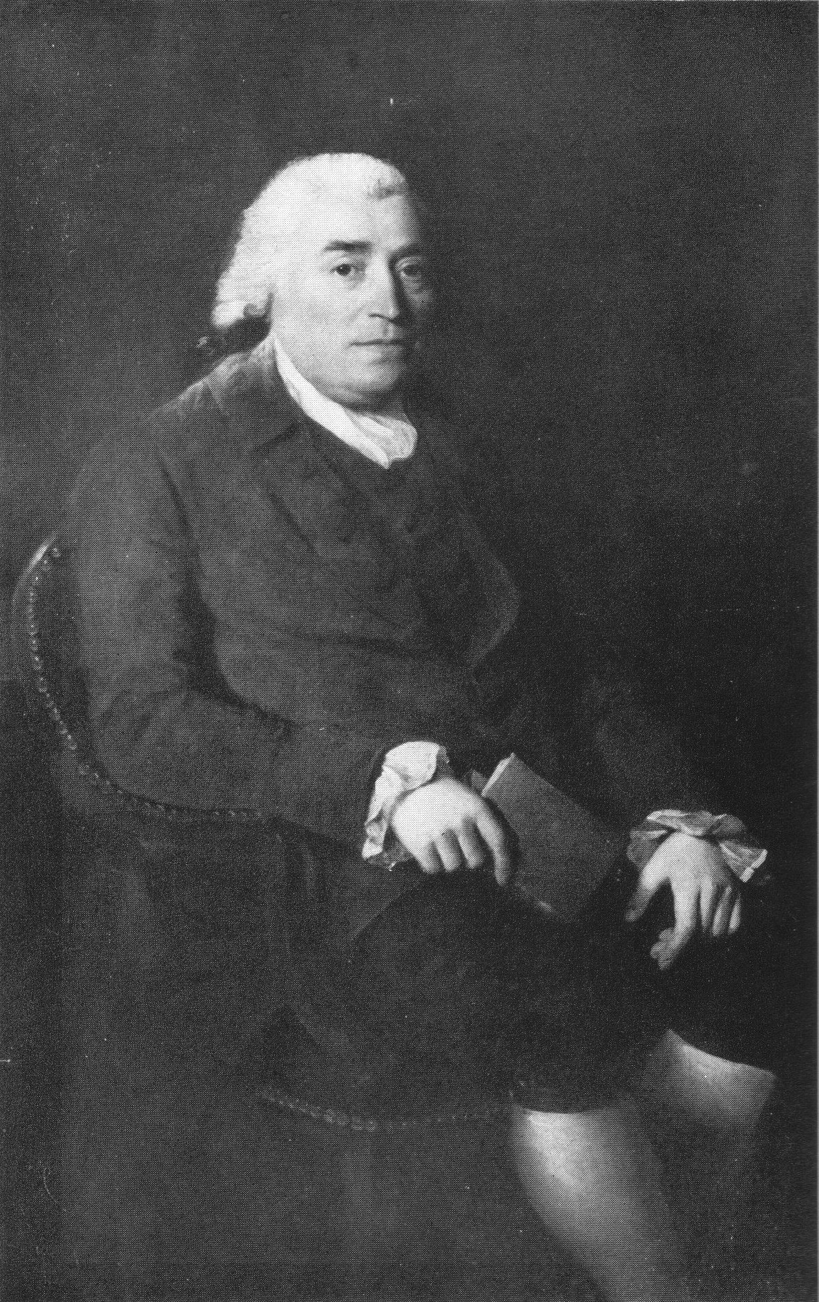 A black and white reproduction of an oil portrait painting of Thomas Fairfax, 6th Lord Fairfax of Cameron. The original portrait is located at the Alexandria-Washington Lodge No. 22 A.F. & A.M. in Alexandria, Virginia.